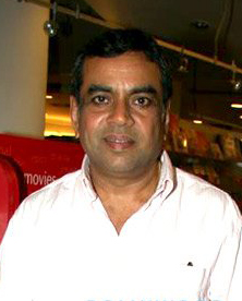 Paresh Raval